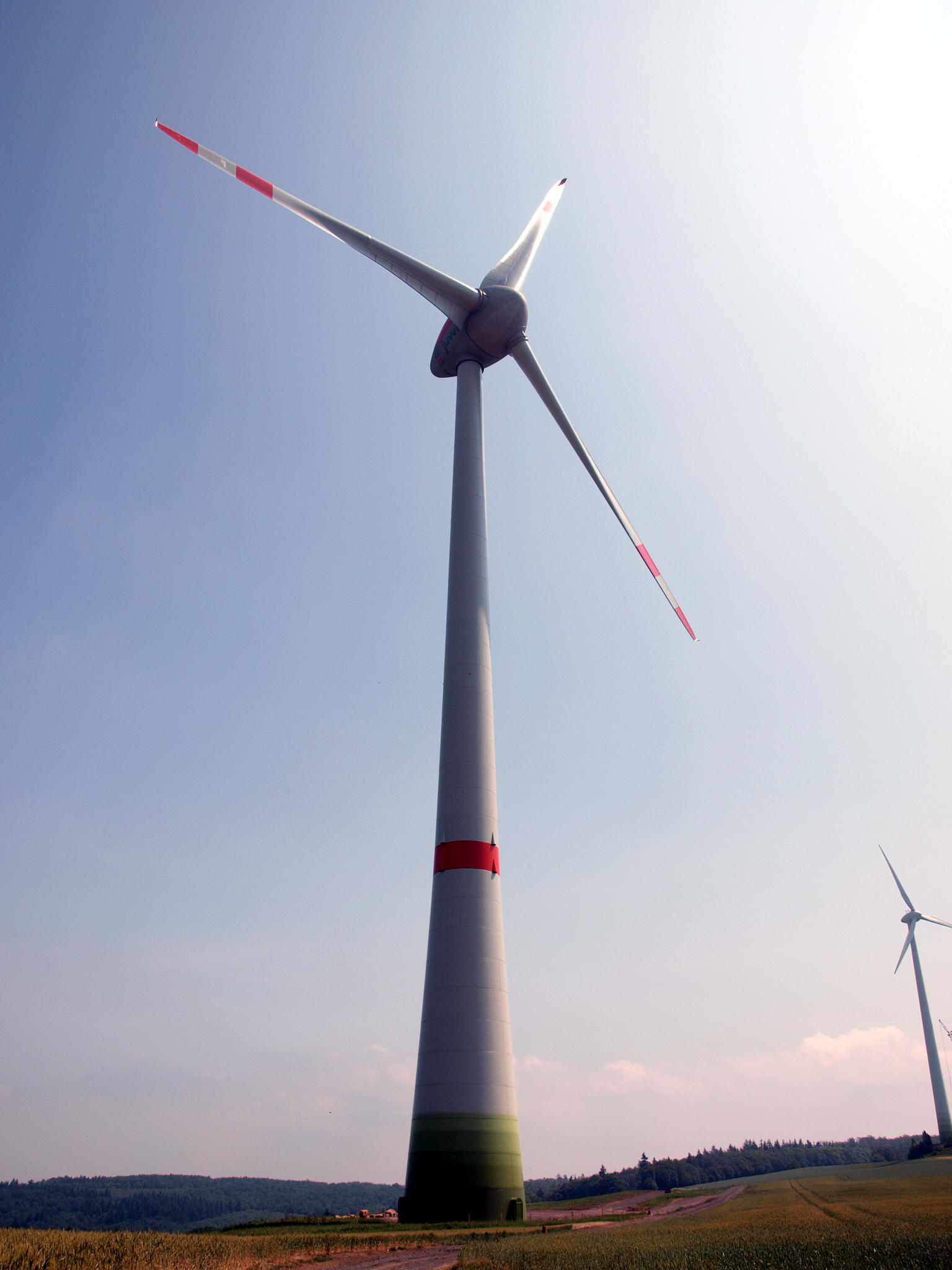 The wind energy park "Schneebergerhof" in Germany (Rhineland-Palatinate). In the center a wind turbine Enercon E-126 (7.5 MW).